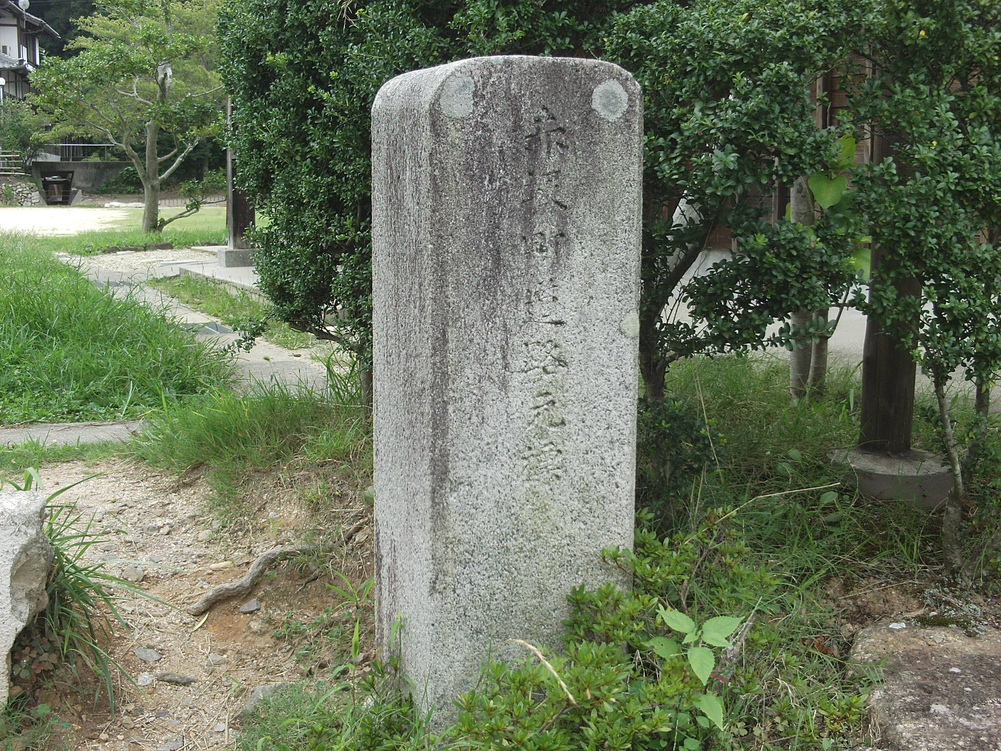 Kilometre zero of Akasaka town. (Akasaka town, Hoi-gun, Aichi.)